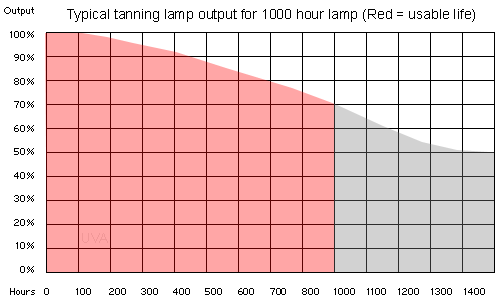 Typical output curve for 1000 hour rated low pressure tanning lamp such as an F71 or F73.